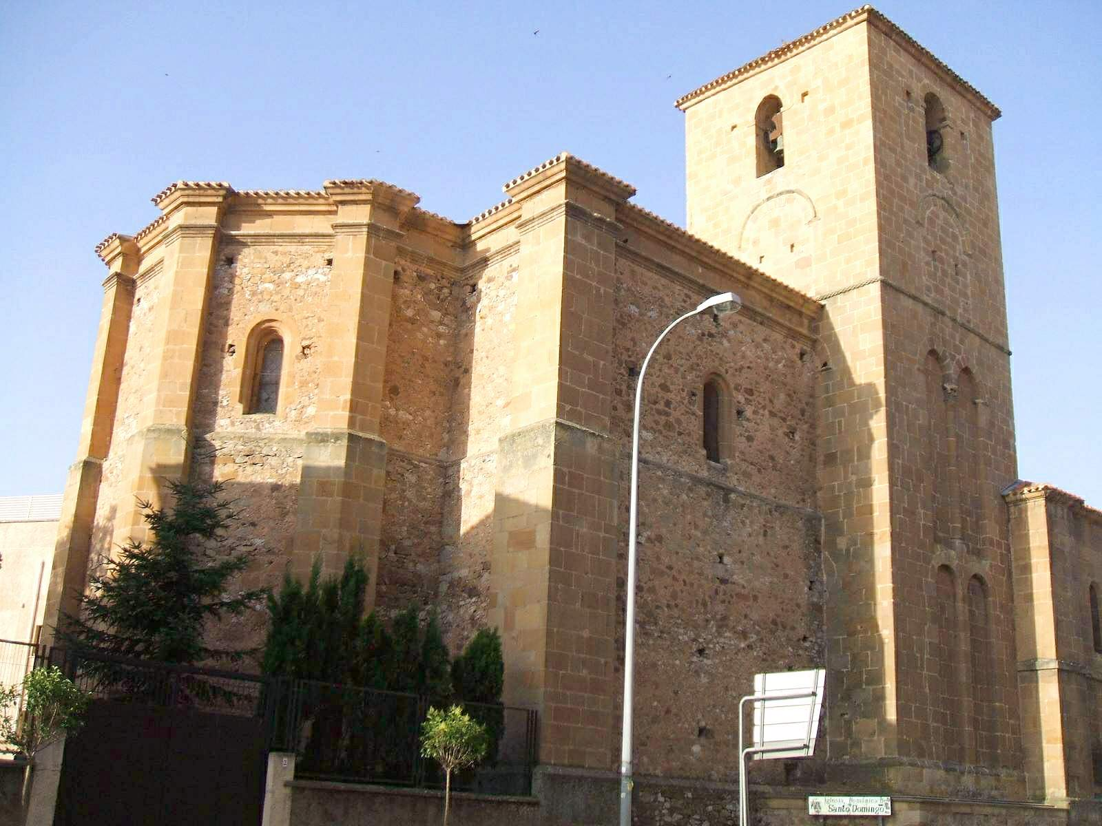 Unknown